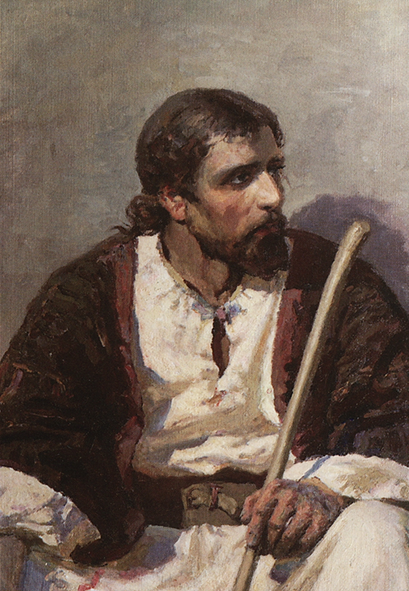 Christ (study by Vasily Polenov for the 1888 painting "Christ and the woman taken in adultery")